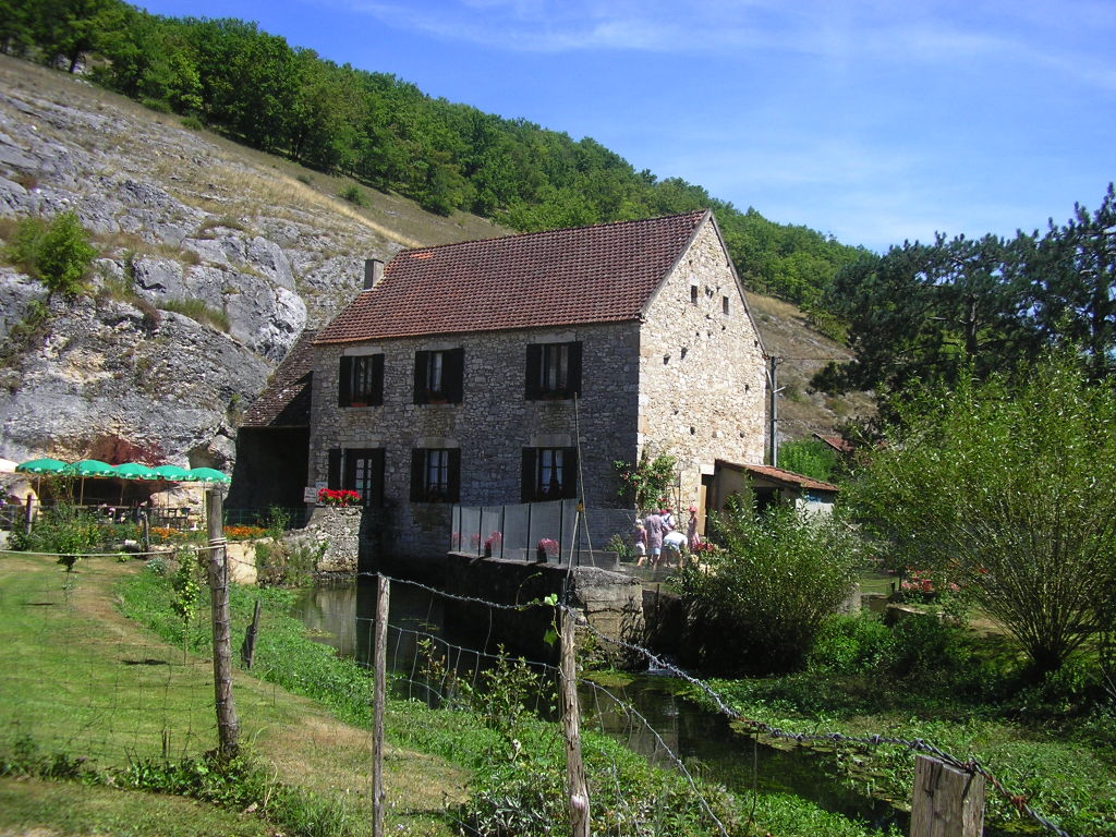 Old Watermil of Caoulet on Ouysse river.